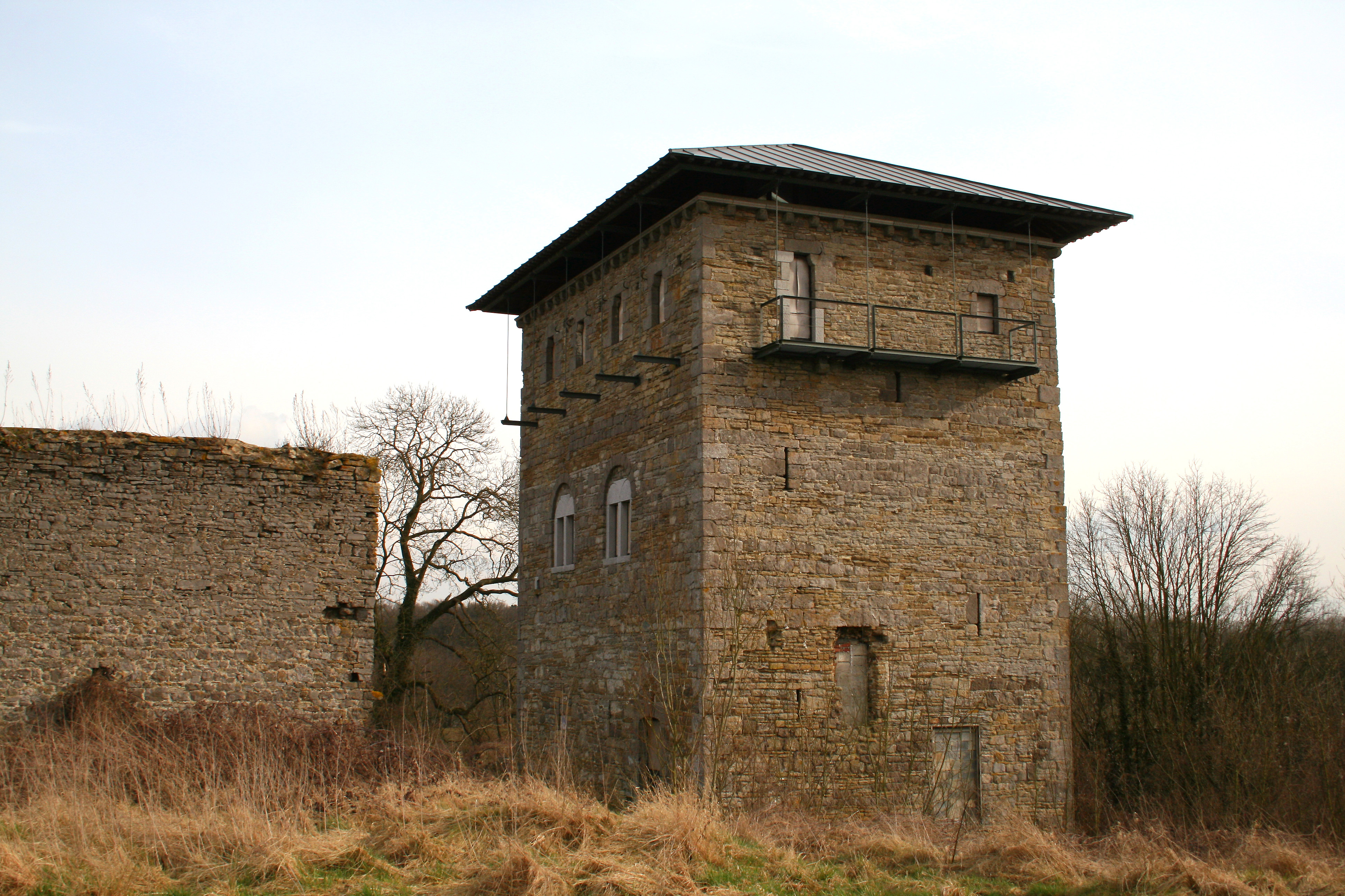 Saint-Martin (Belgium), the Villeret keep (XIIIth century).